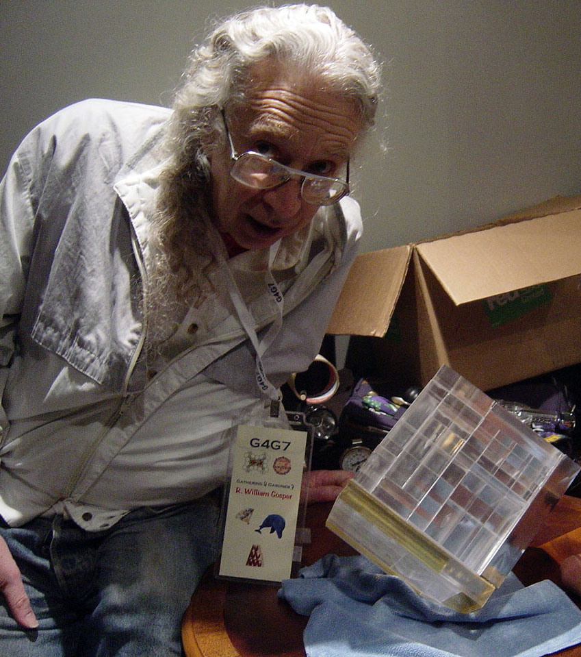 Mathematician Bill Gosper in March, 2006 at the Seventh Gathering for Gardner (G4G7) in Atlanta, Georgia